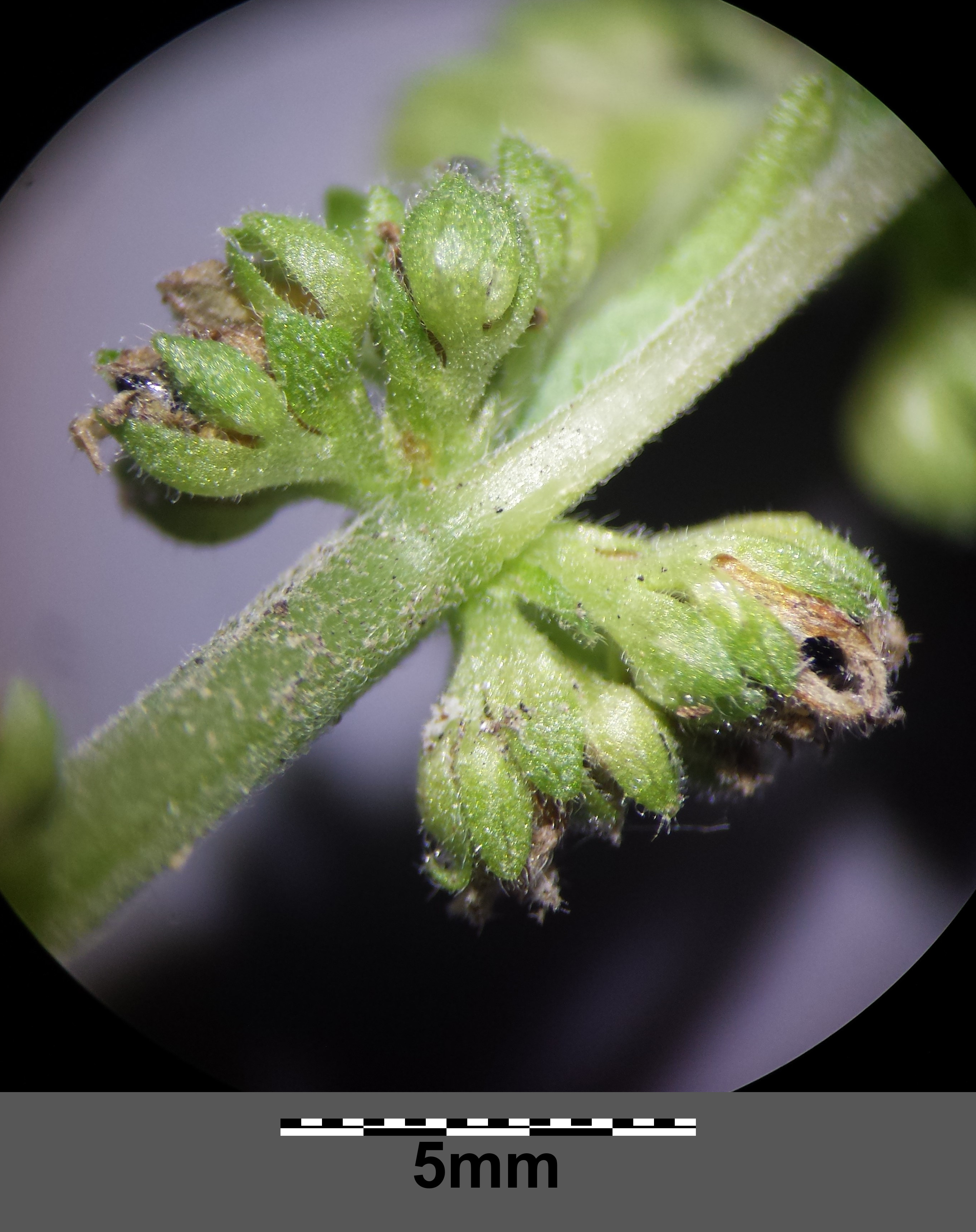 Inflorescence, bracts completely free Taxonym: Parietaria officinalis ss Fischer et al. EfÖLS 2008 ISBN 978-3-85474-187-9 Location: Wasserpark, Vienna-Floridsdorf - ca. 160 m a.s.l. Habitat: border of a shrubbery